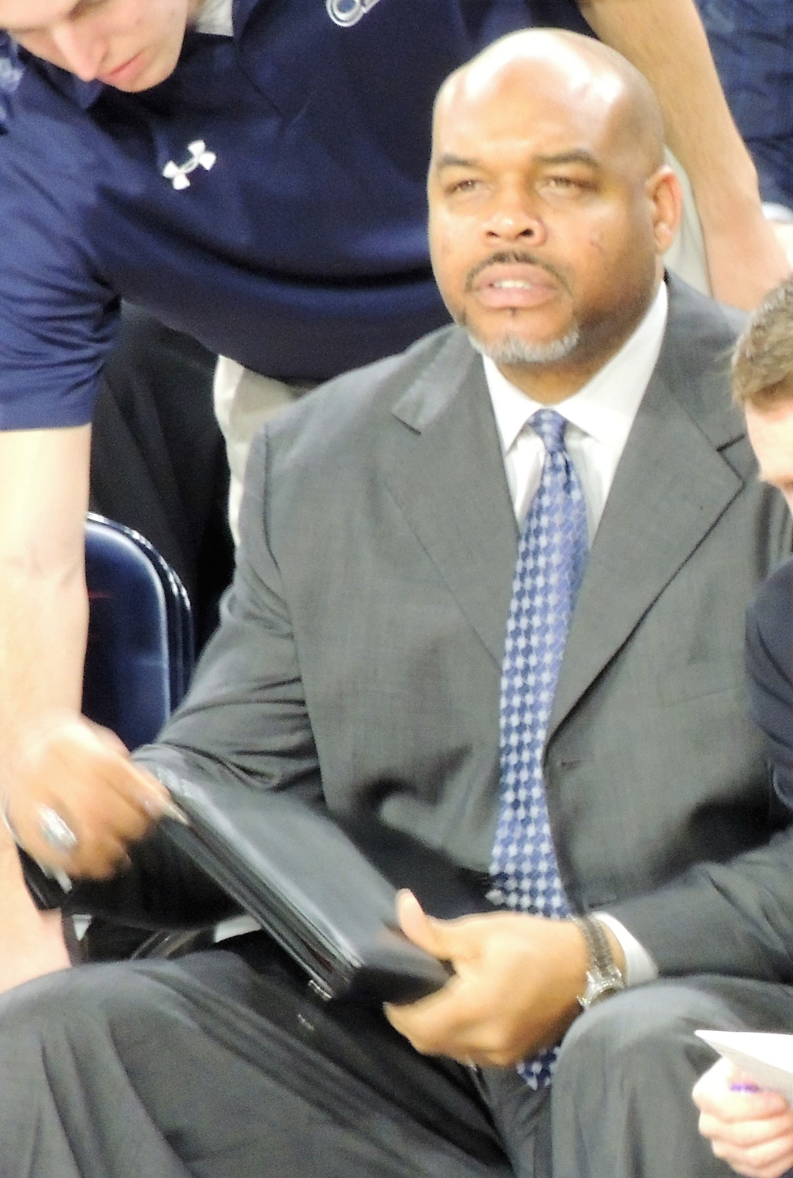 Old Dominion University assistant coach at a game in December 2015